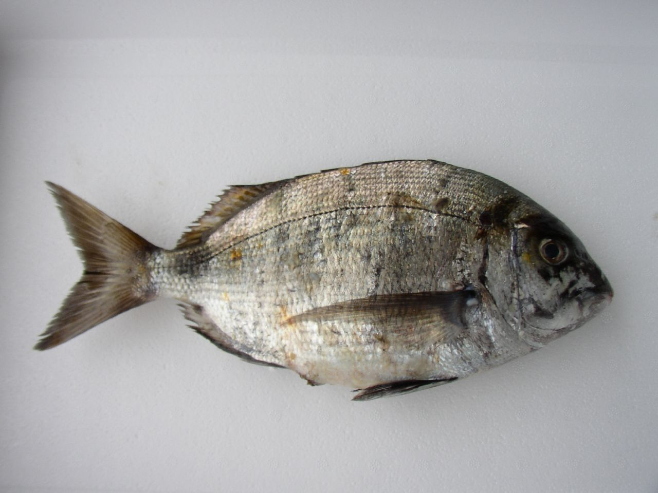 White seabream, Sargo (Diplodus sargus).